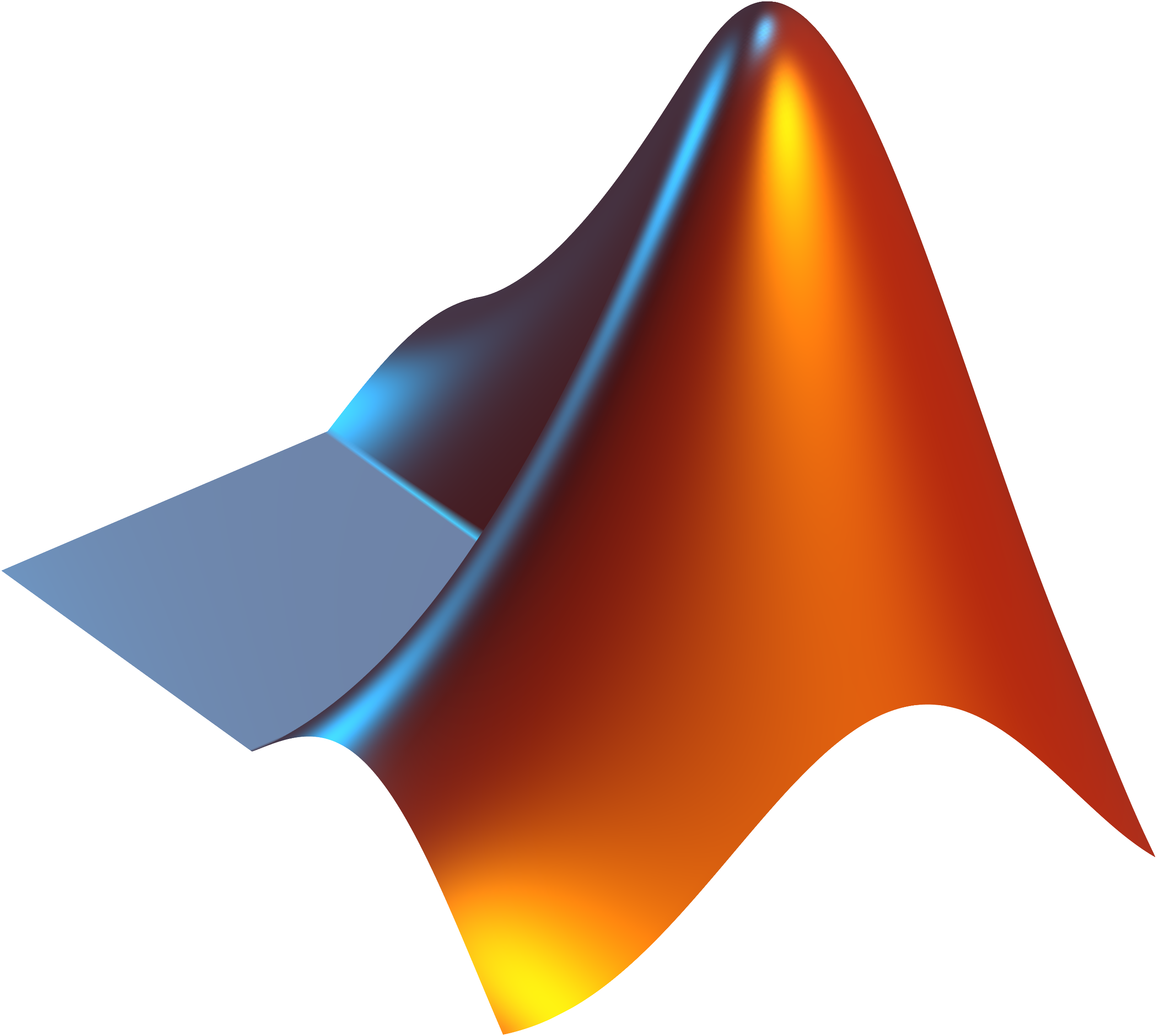 First eigenfunction of the L-shaped membrane, resembling (but not identical) to MATLAB's logo trademarked by MathWorks Inc.